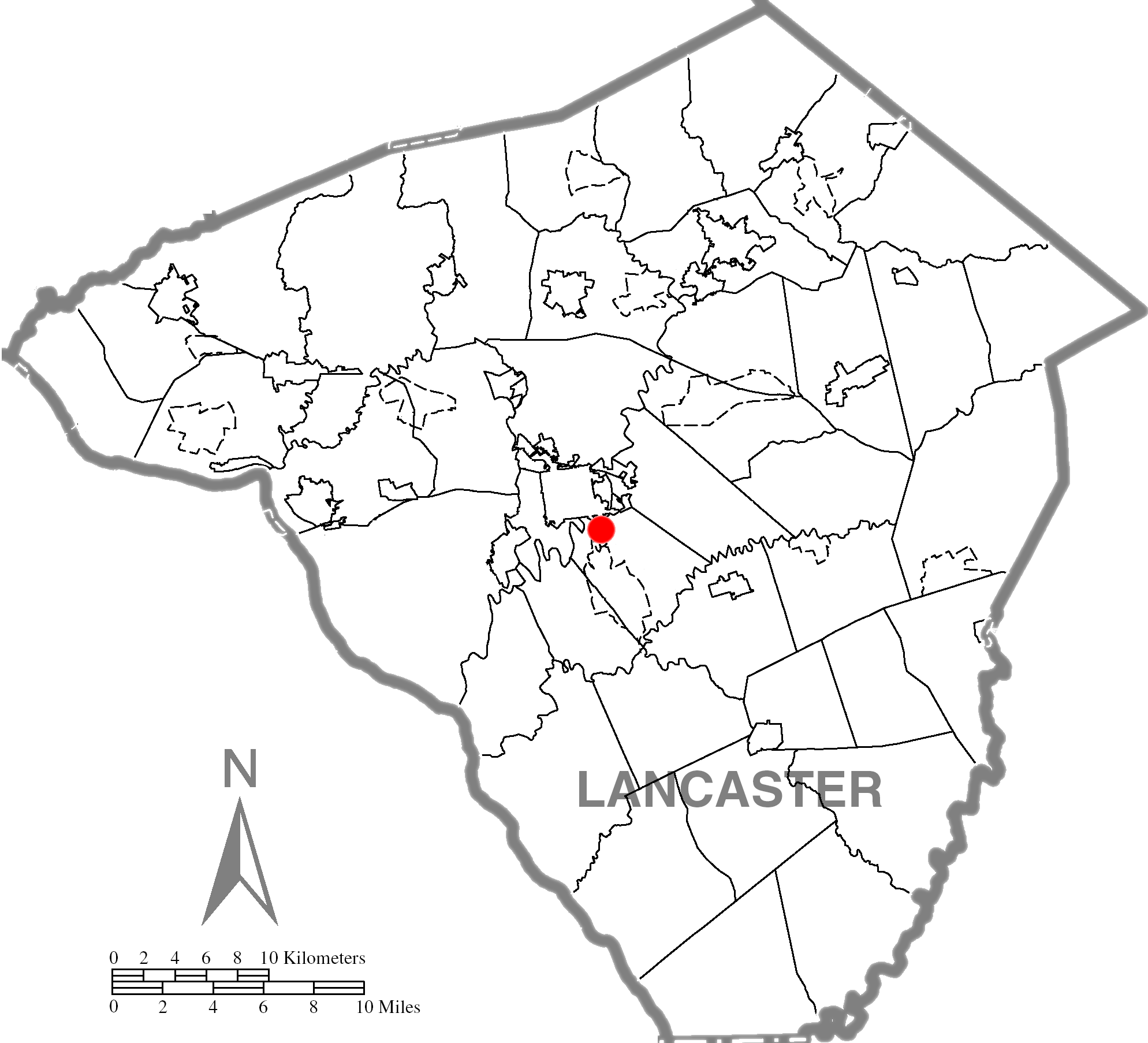 Lancaster County dot map of the Kurtz's Mill Covered Bridge.